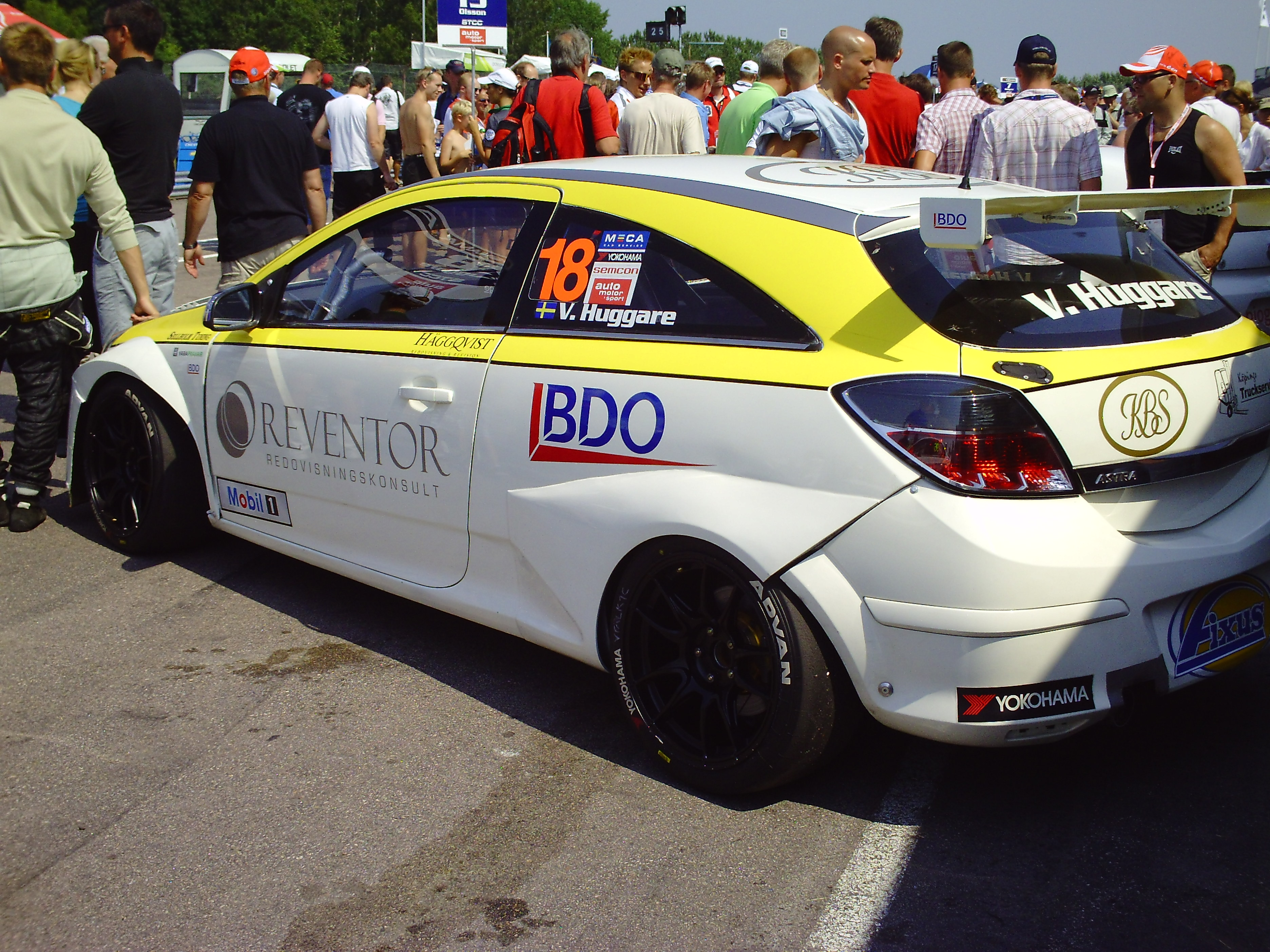 Viktor Huggare's Opel Astra Coupé in Swedish Touring Car Championship in the pit at Falkenbergs Motorbana 2010.